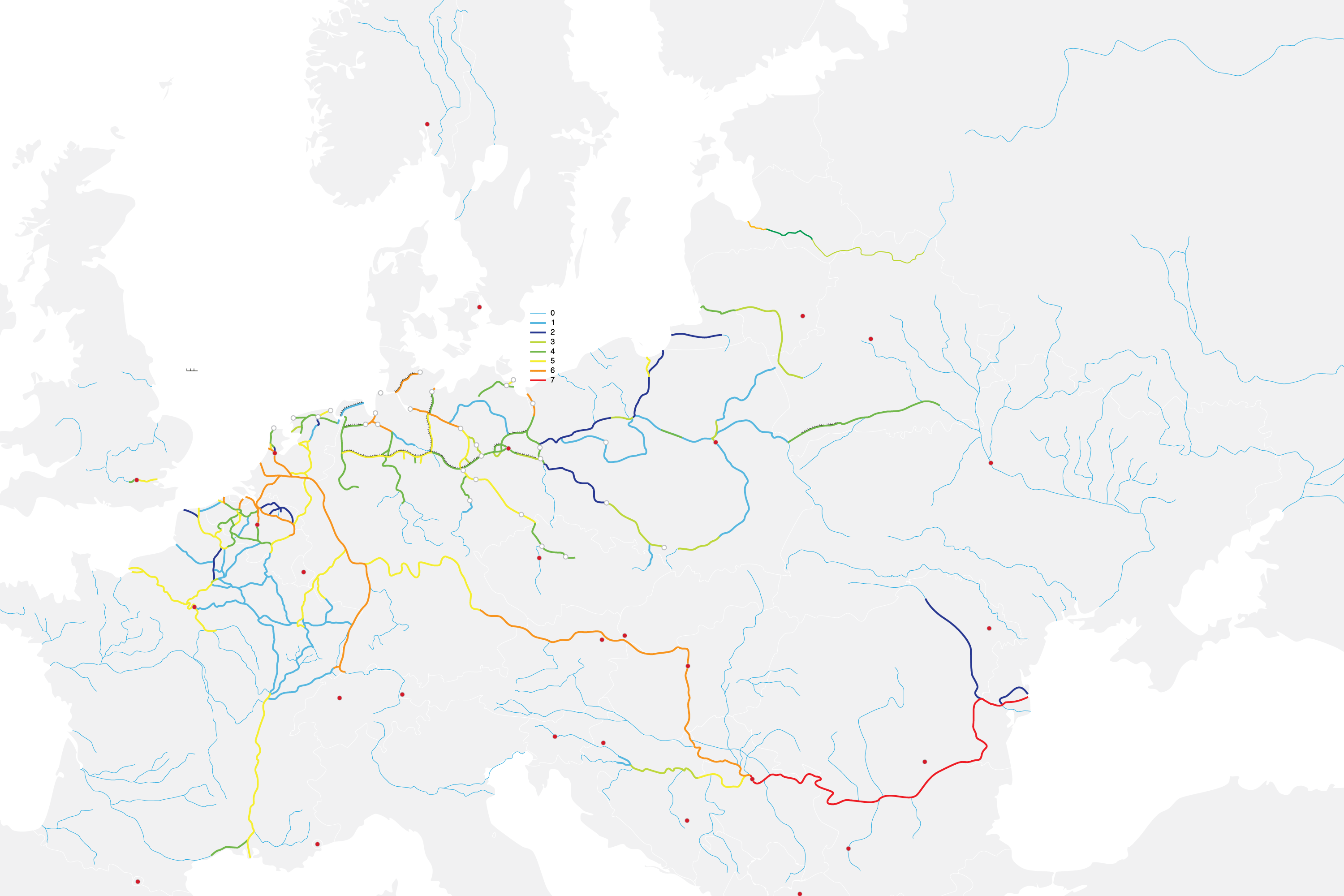 European waterways (rivers + canals), schematic drawing